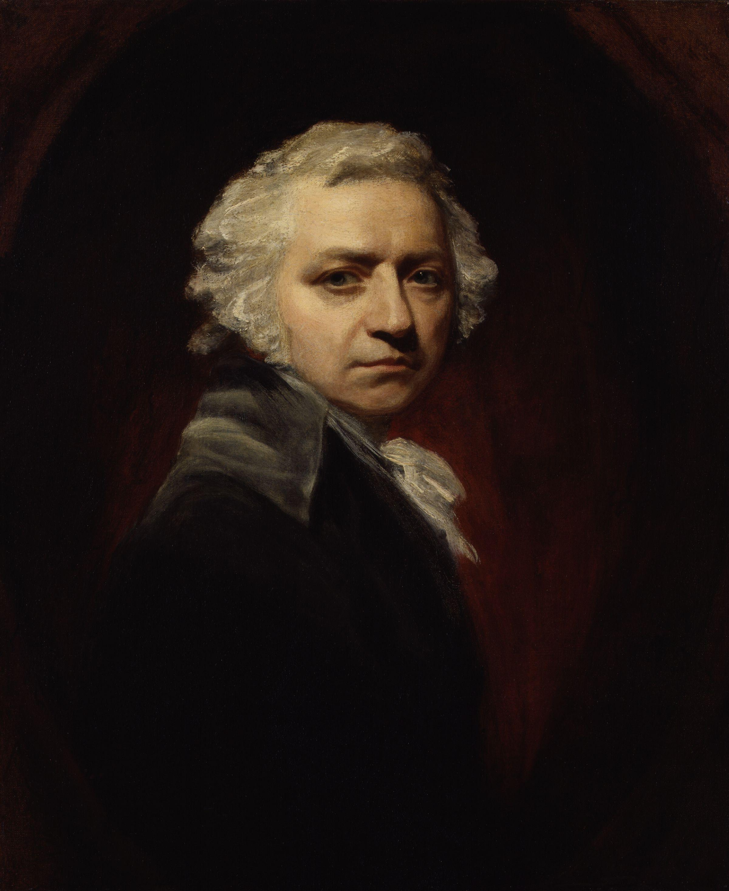 Henry Fuseli, by John Opie (died 1807), given to the National Portrait Gallery, London in 1885. All images in this batch have been confirmed as author died before 1939 according to the official death date listed by the NPG.